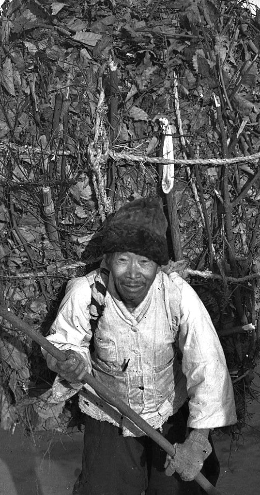 We were amazed at the heavy loads of firewood Koreans carried. I probably took the photo in November 1945, late afternoon judging by the long shadows. This is a crop from a sharp 4x5 Super X filmpack negative taken with a Speed Graphic.